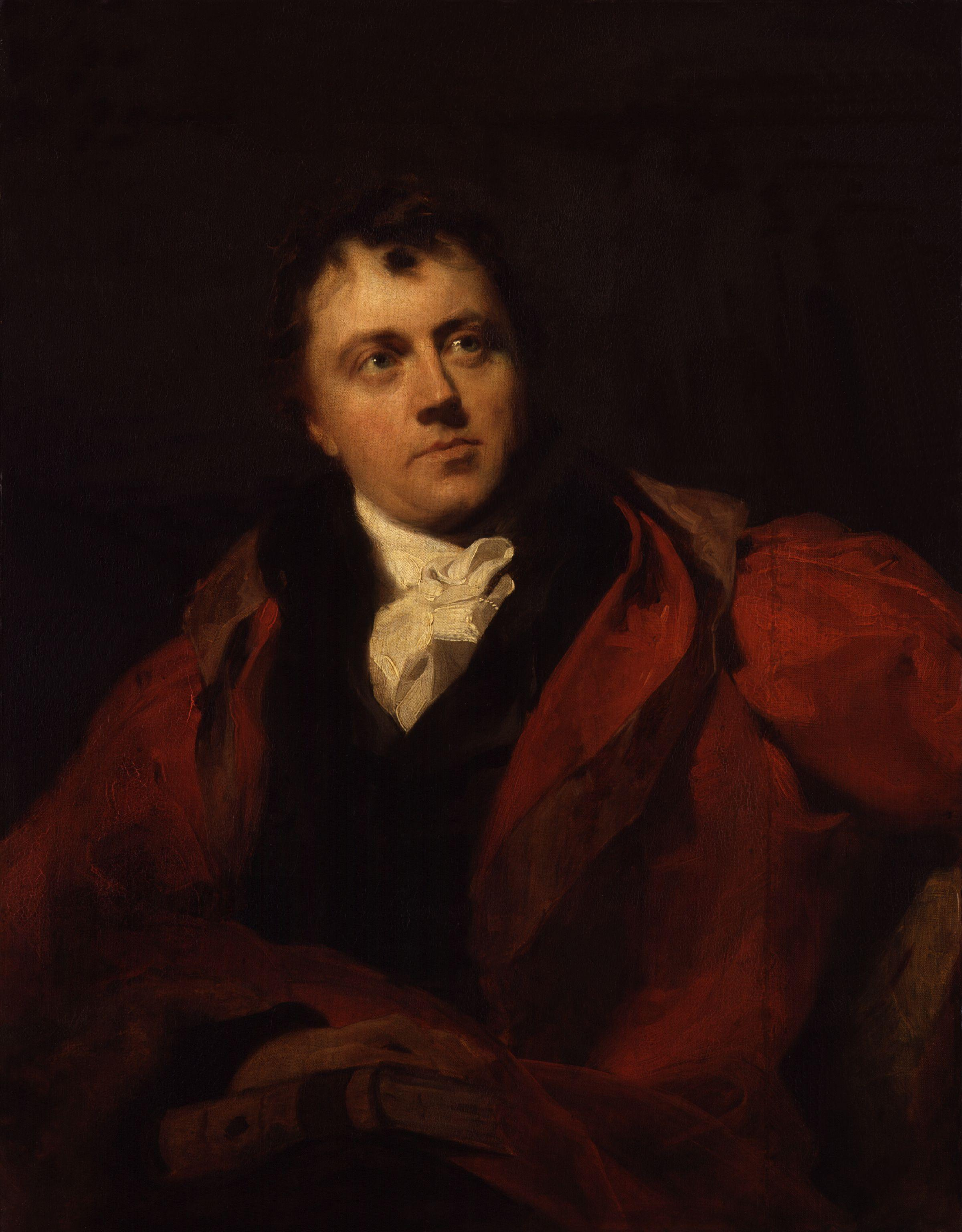 Sir James Mackintosh, by Sir Thomas Lawrence (died 1830), given to the National Portrait Gallery, London in 1858. All images in this batch have been confirmed as author died before 1939 according to the official death date listed by the NPG.